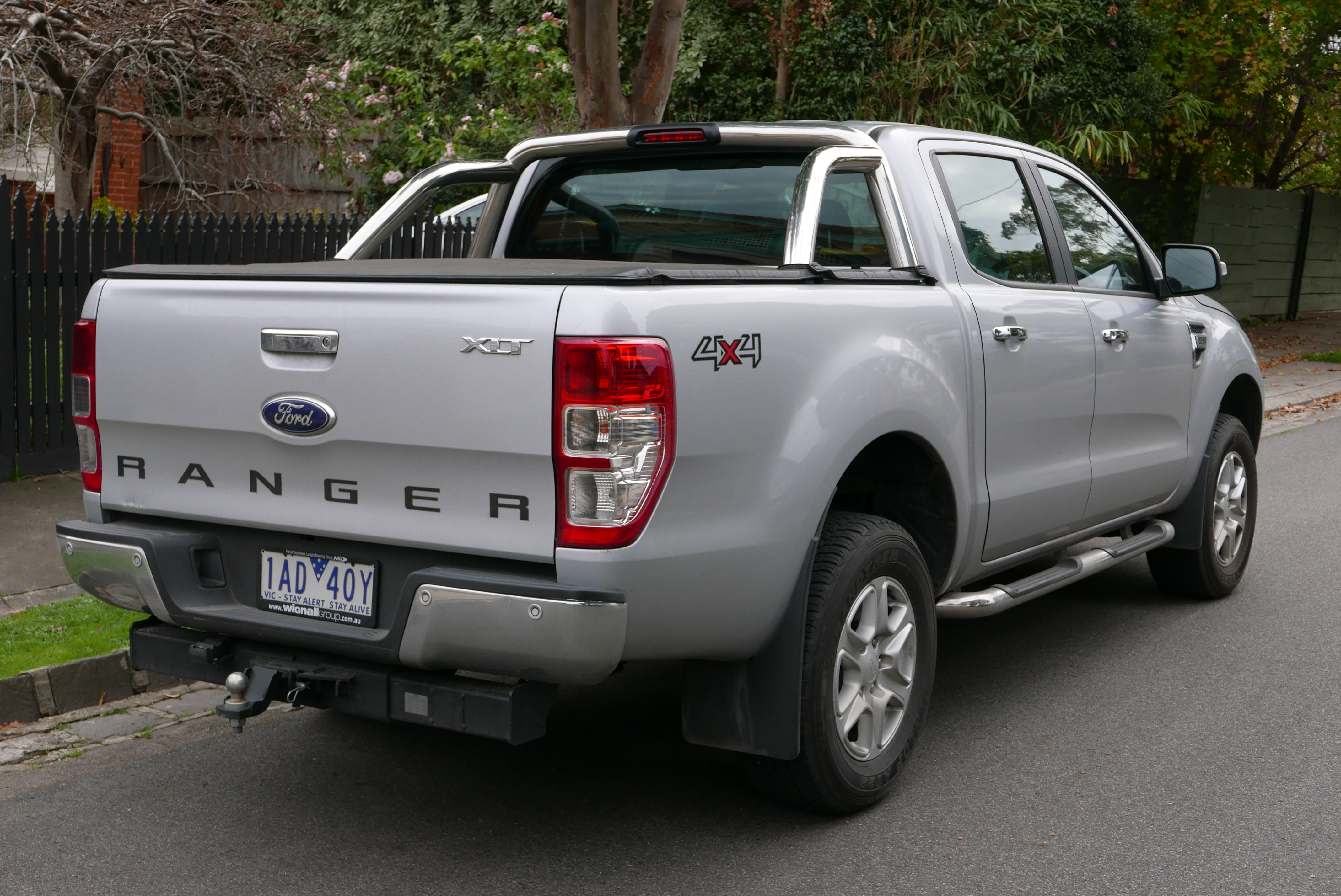 2013 Ford Ranger (PX) XLT 4WD 4-door utility. Photographed in Kew, Victoria, Australia. Vehicle registration enquiry resultsJurisdictionVictoriaRegistration1AD4OYChassis codeMNAUMFF50DW206861Engine codeP5AT1066547Compliance date2013-08Year of manufacture2013